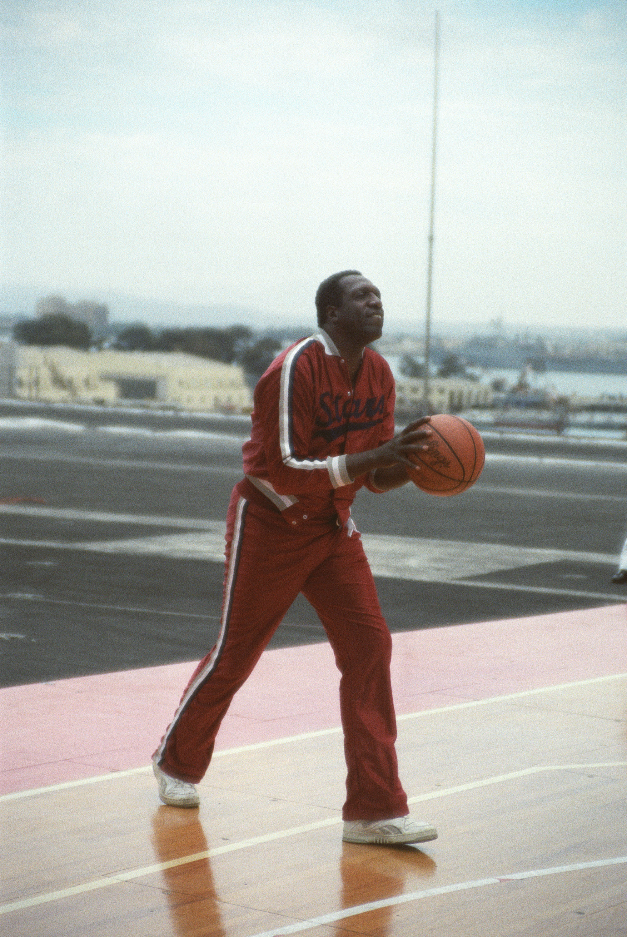 Star player, Meadowlark Lemon, formerly of the Harlem Globe Trotters, warms up for the game. A regulation basketball court is set up on the flight deck of the aircraft carrier USS RANGER (CV-61) for an exhibition game by the San Diego Stars. The event was attended by crew members and families of the carriers USS CONSTELLATION (CV-64), USS ENTERPRISE (CVN-65) and invited guests of the San Diego Naval Training Center (NTC). The game was sponsored by the San Diego Sports Arena in cooperation with ESPN Sports network. (Released to Public)